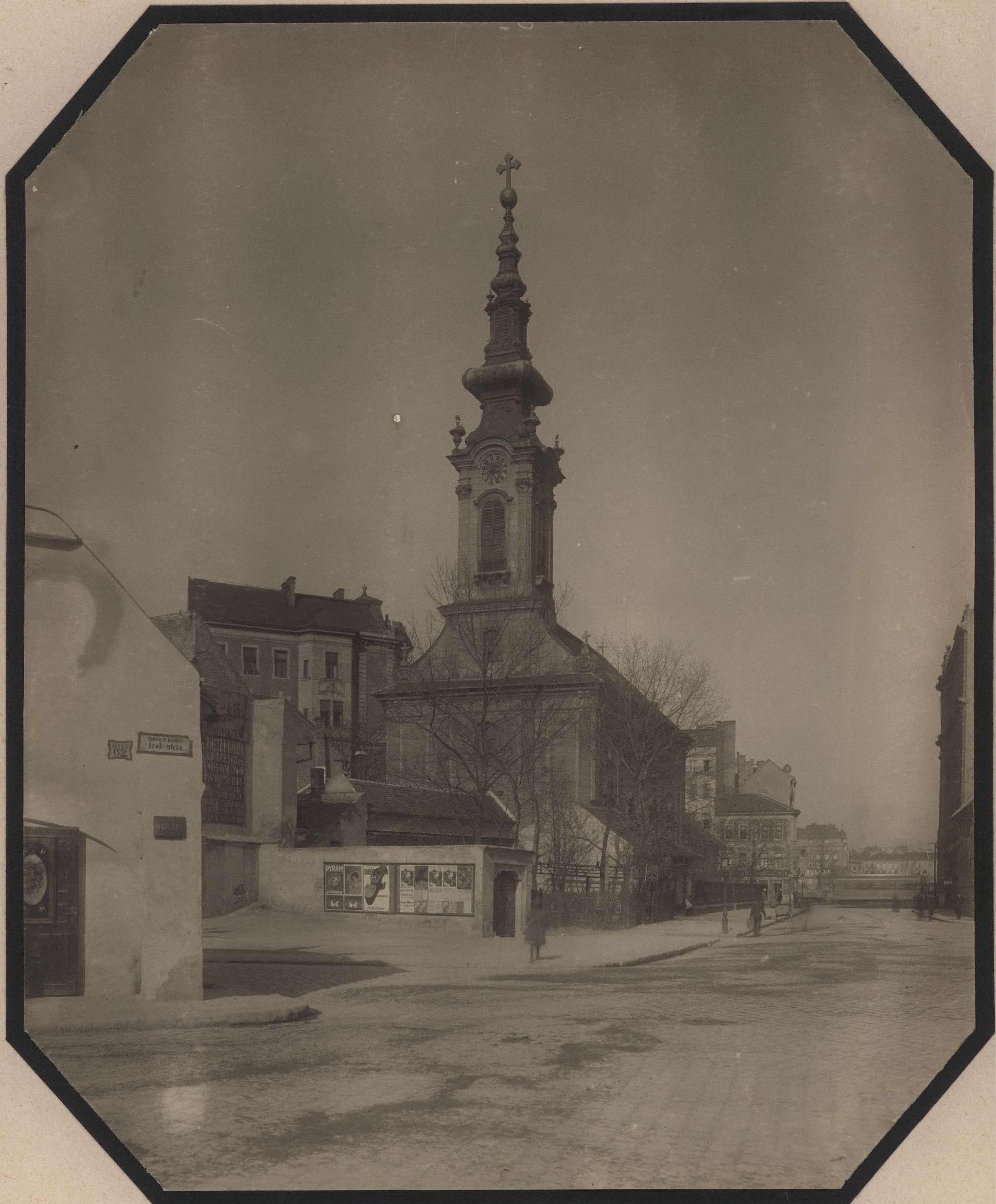 The Serbian Orthodox Church in Tabán around 1912 from the corner of Hadnagy utca and Árok utca with the Döbrentei tér in the background. The first house on the left is no. 62 Árok utca, the old stone gateway leads to no. 5 Hadnagy utca; in the recessed courtyard at no. 3 Hadnagy utca the restaurant of László Avar is visible. The small building on the plot of the church (no 1. Hadnagy utca) housed the atelier of photographer Pál Badovinszky. The large building behind the church is the tenement house of the Serbian Parish at no. 51-53 Attila körút.